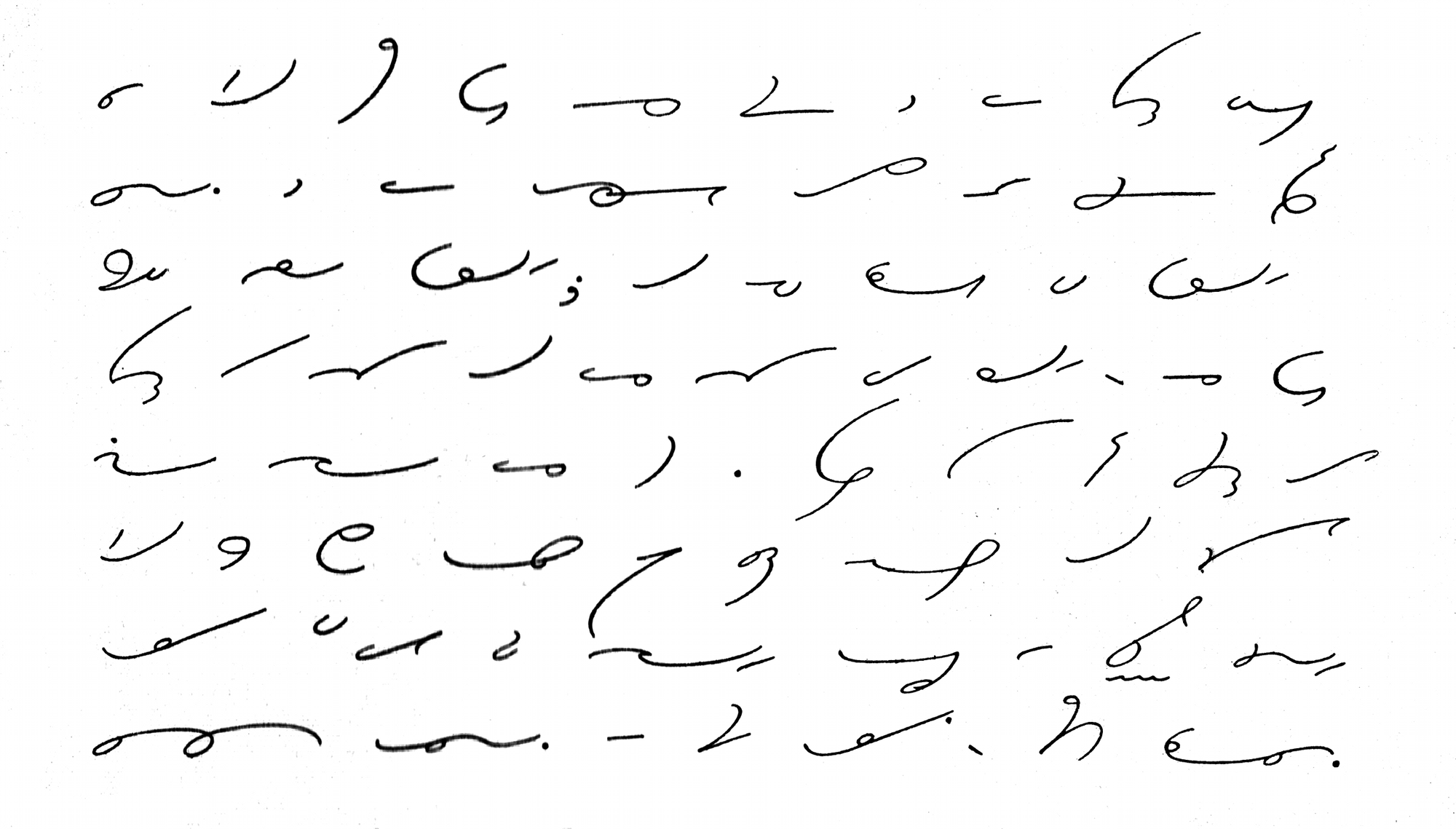 Part of a text written in Gregg shorthand, in English, from John Robert Gregg's book "Gregg Shorthand. A Light-Line Phonography for the Million", 1916, page 153.